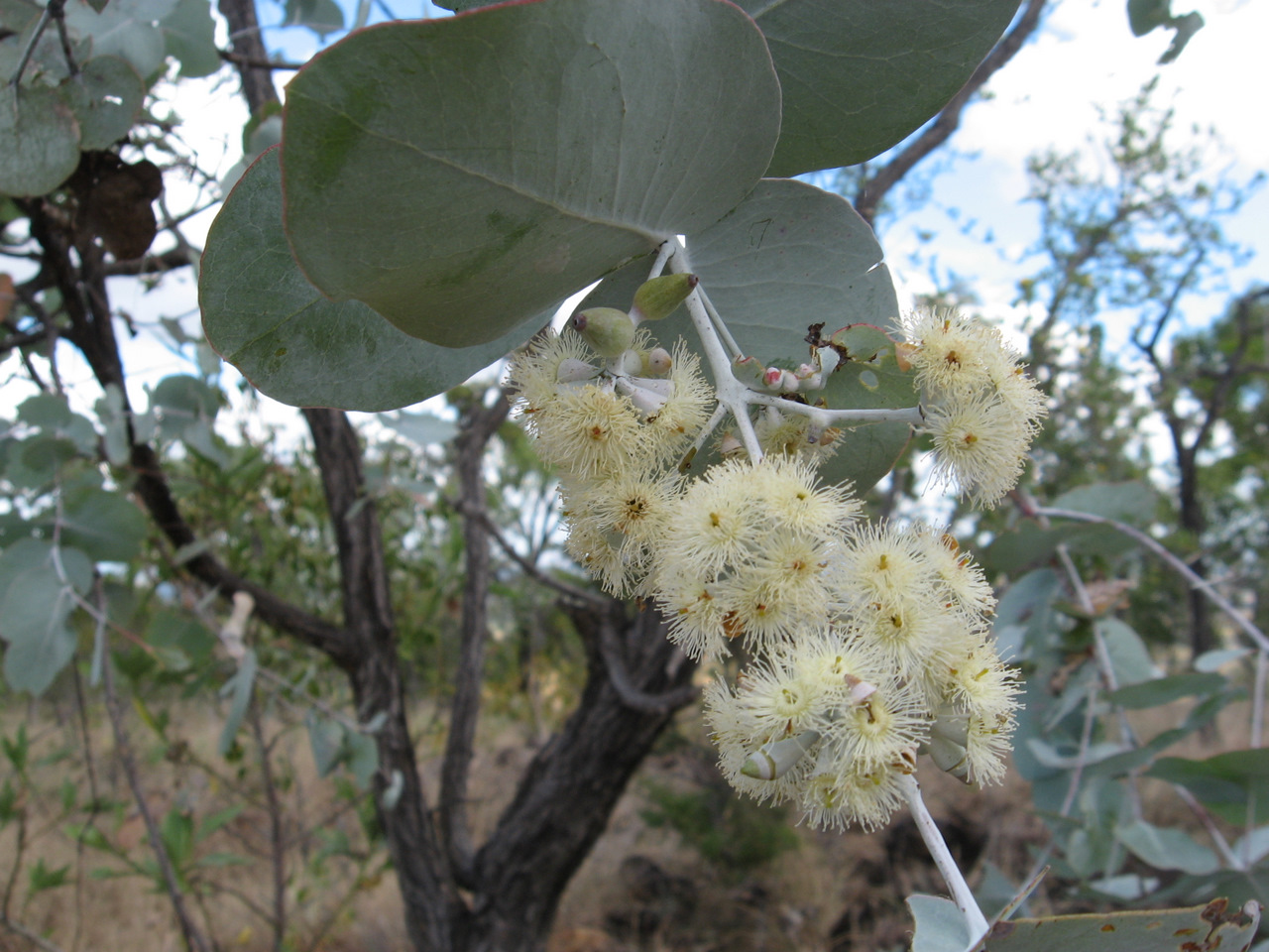 Eucalyptus shirleyi Taken by Garry Reed of Pelican Ck.